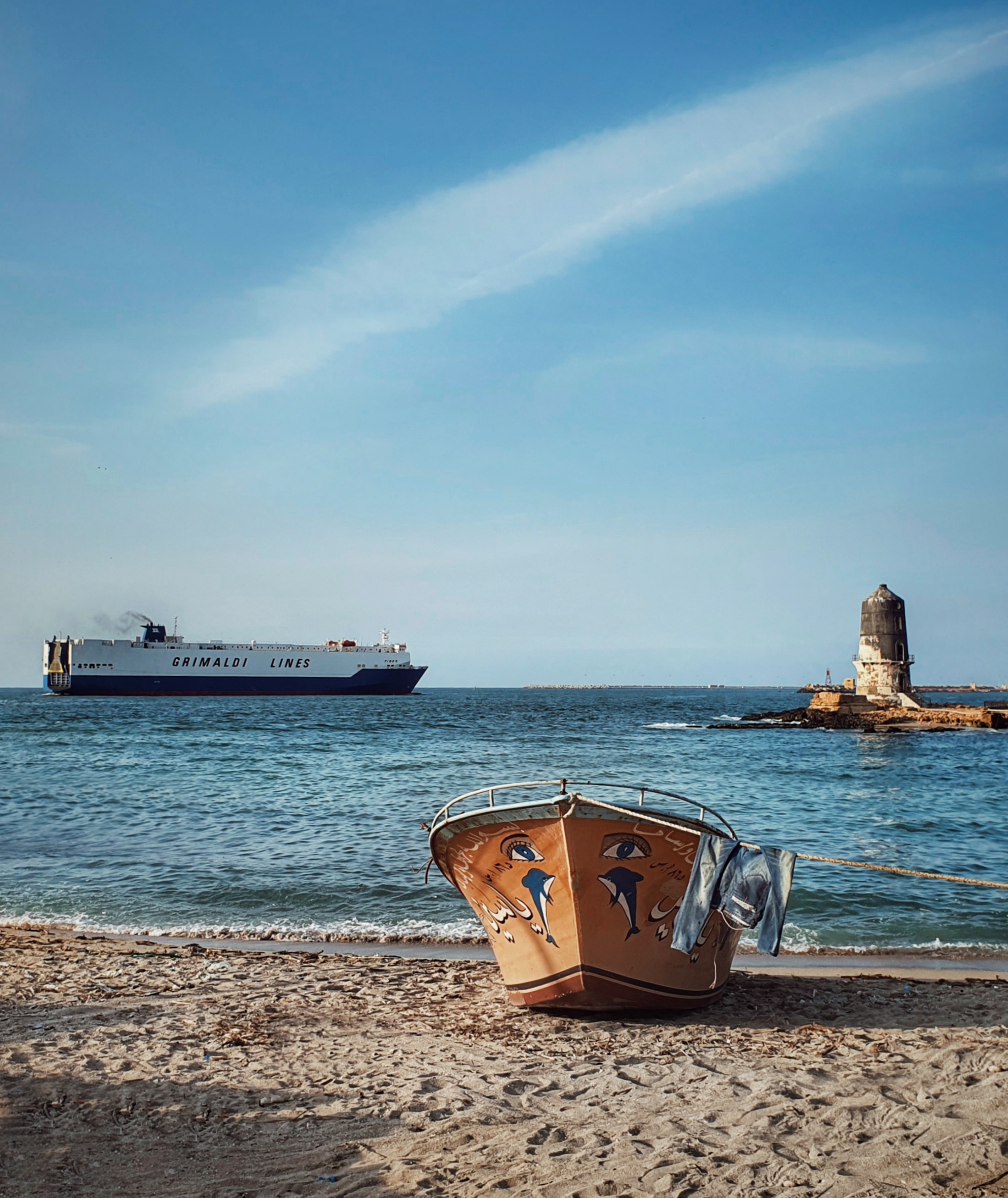 تصوير موبيل This is an image with the theme "Africa on the Move or Transport" from: Egypt